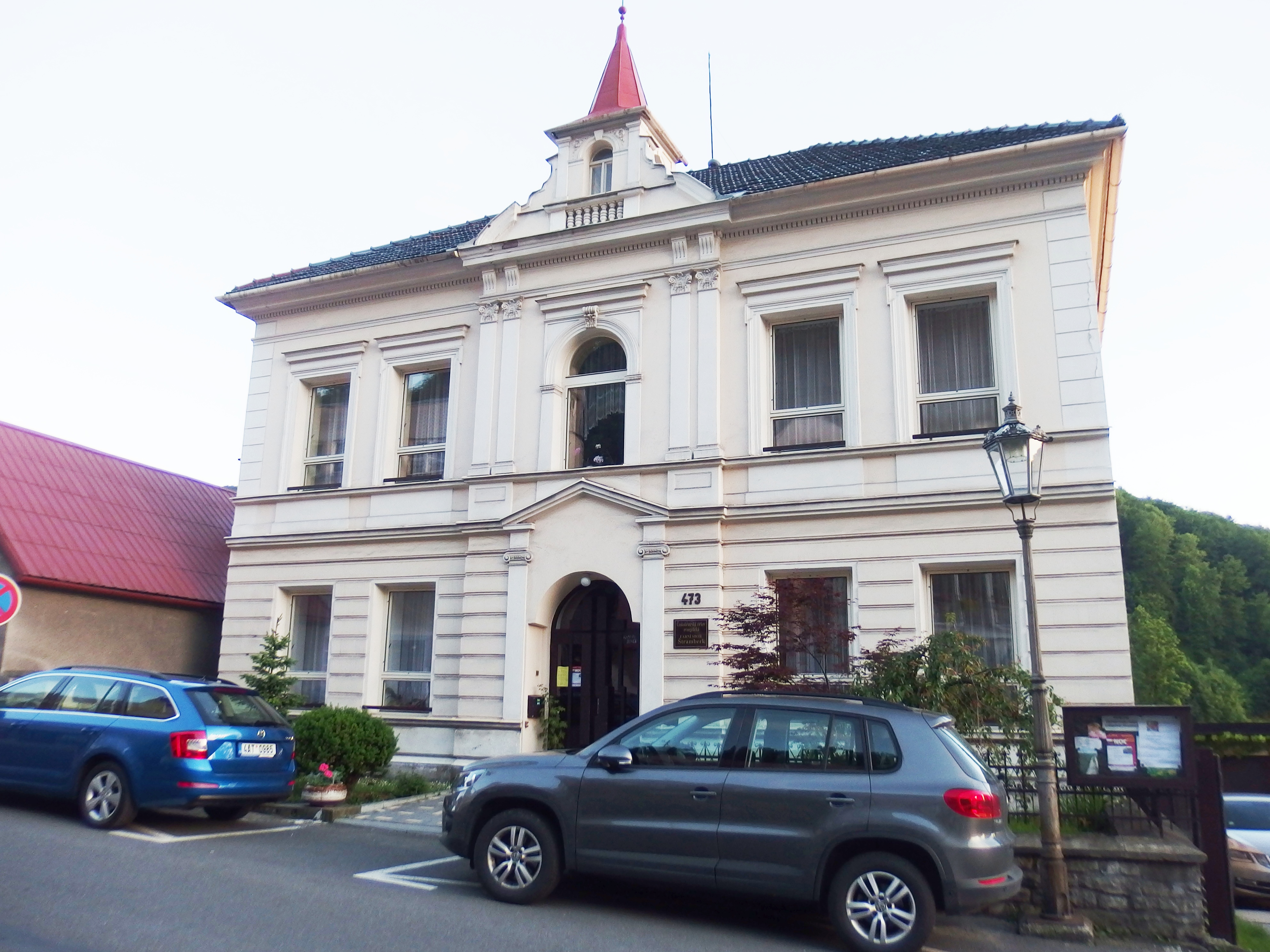 Štramberk, Nový Jičín District, Czech Republic. Zauličí Street.